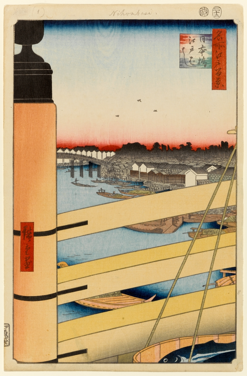 Part of the series One Hundred Famous Views of Edo, no. 043, part 2: Summer.